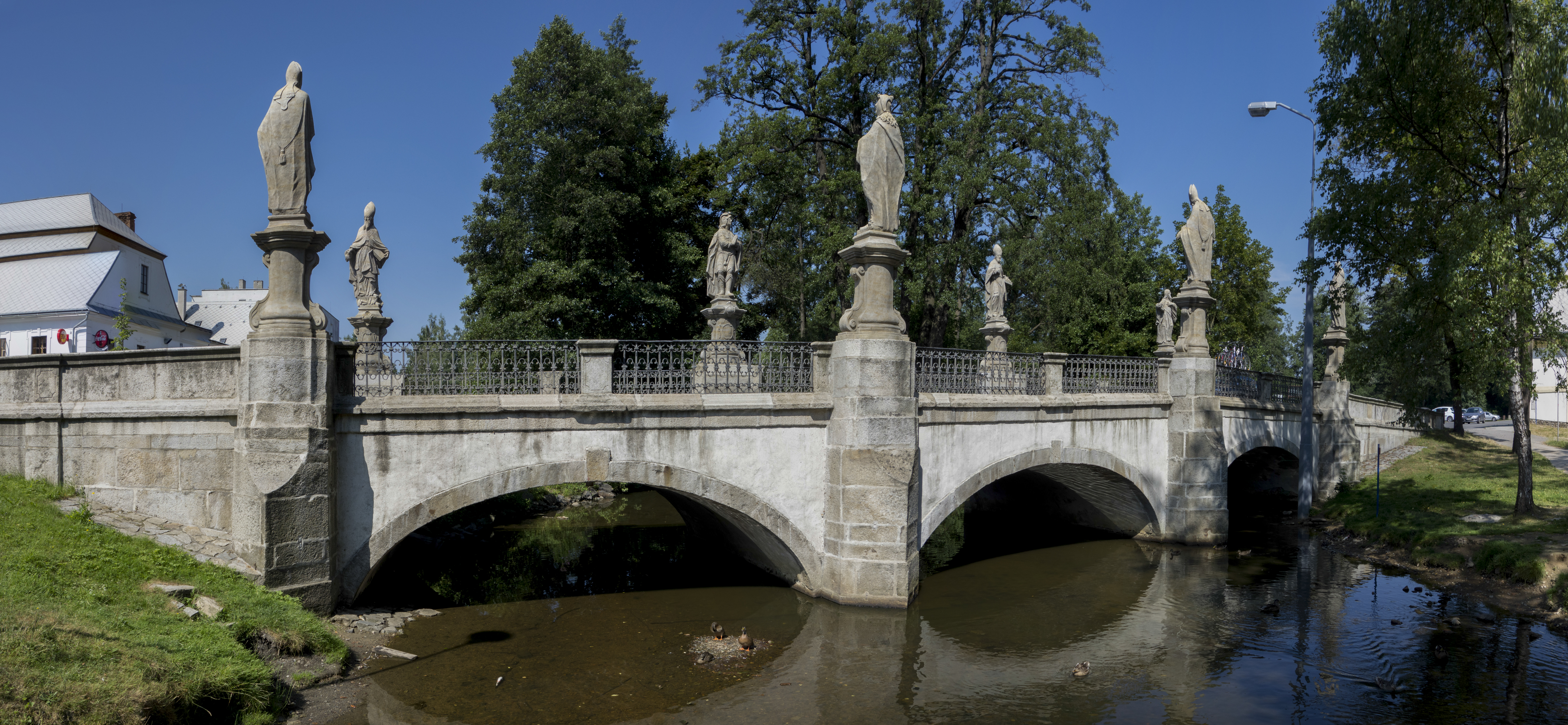 The Baroque bridge on the road from Zdar nad Sázavou was built in the days of the abbot Bernard Hennet. Chronograms on eight statues of saints provide details of their creation time. There is the year 1761 on seven of them, and 1766 on the last one (St. Methodius). The sculptor of these statues is unknown.